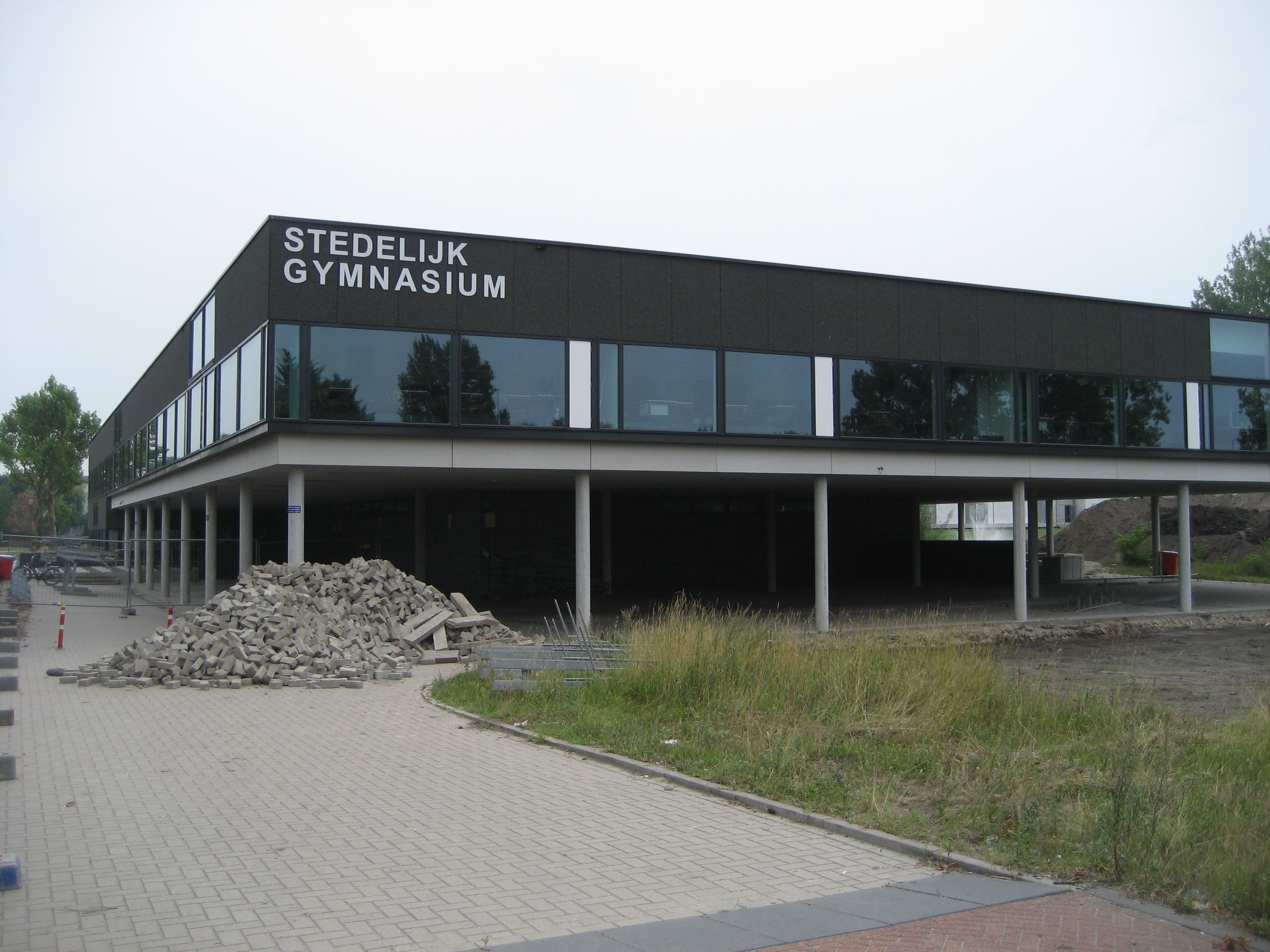 Stedelijk Gymnasium Leiden, Socrates Building